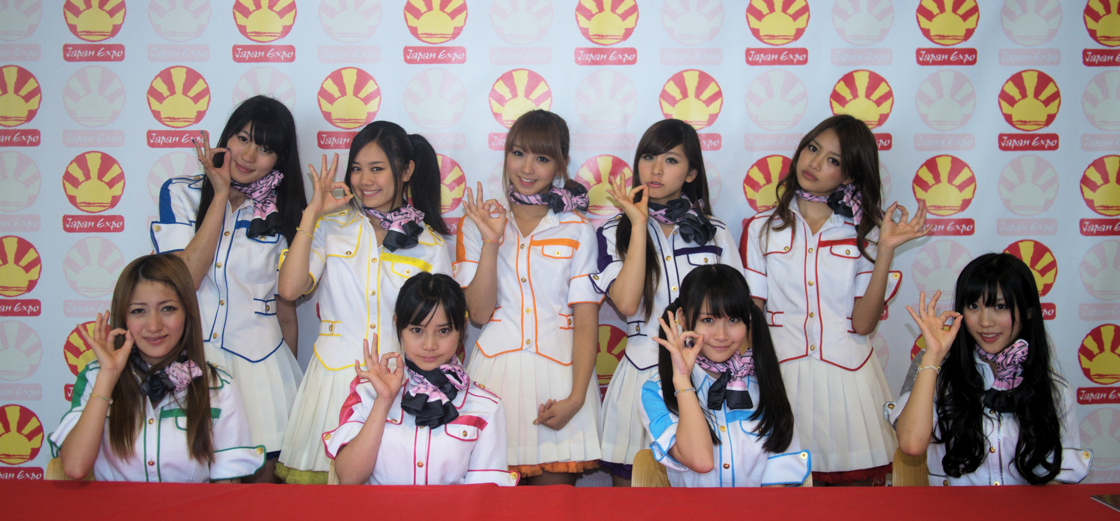 The japanese idols group PASSPO☆ during a press conference at Japan Expo in july 2011.